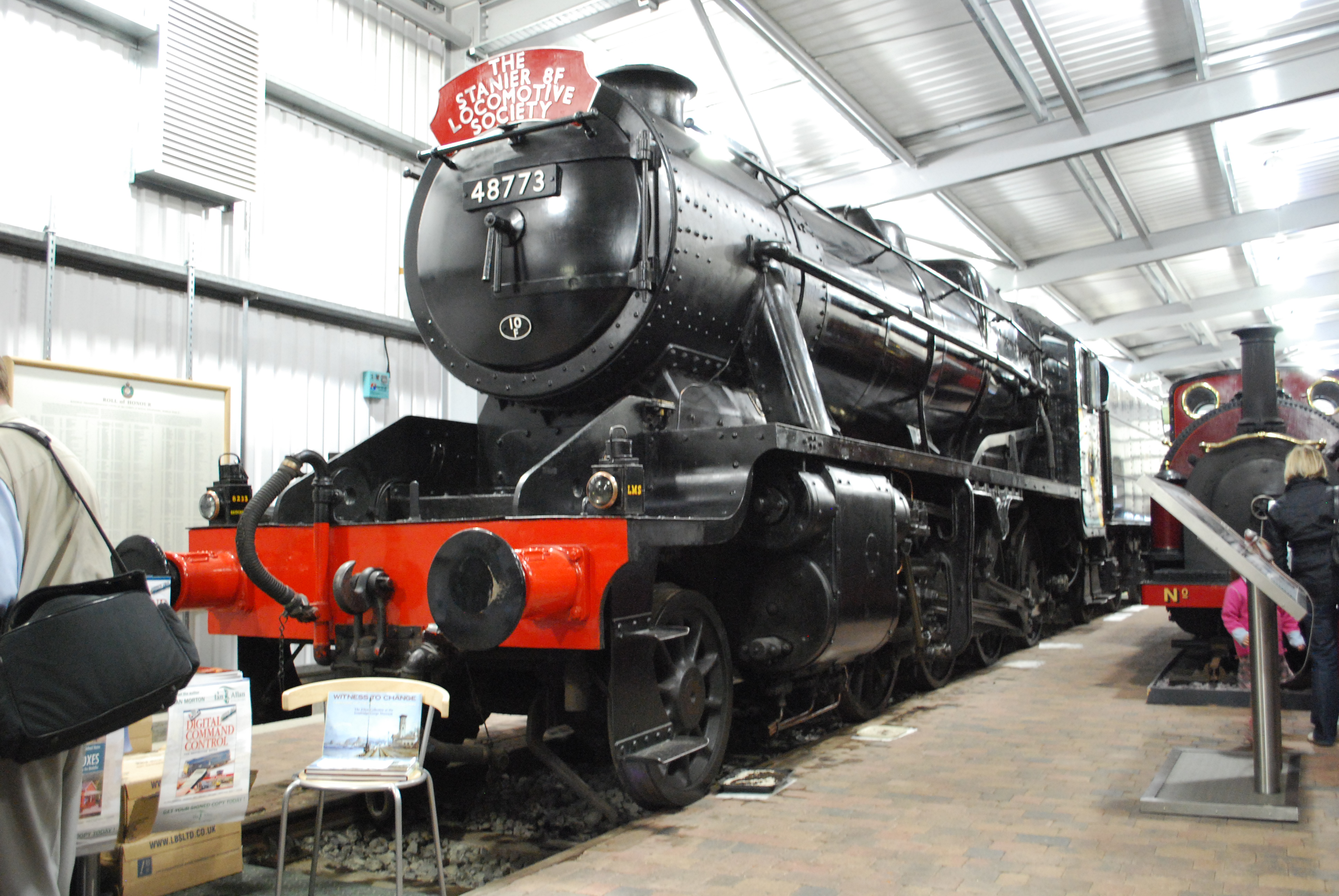 LMS Stanier "8F" 2-8-0, built by North British ( Works No.24607) in 1940 for the War Department as an "interim austerity" loco and numbered by them 307; it was intended to ship it to France but the Fall of France resulted in it being allocated temporarily to the LMS as No.8233 before being sent to Persia in 1941 where it became Persian Railway No.41.109 and worked on the very difficult Trans Iranian Railway. In 1944 the WD moved it to the Suez Canal Zone where it was numbered No.500 before return to England for work on the Longmoor Military Railway as No.70307. In 1957 the engine was bought by BR as No.48773. It was one of the very last steam engine to be withdrawn by BR, and the last "8F", when it was withdrawn after hauling a steam special on 4 August 1968. Now in the Highley Museum, 9/11.